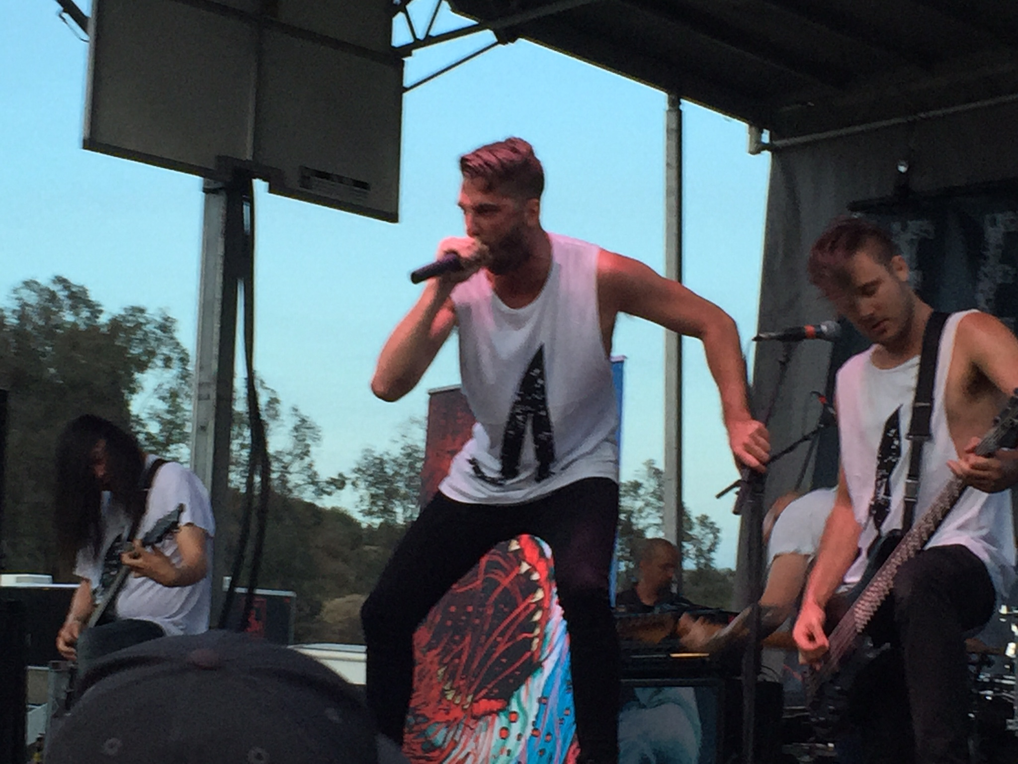 Feed Her To The Sharks performing in Chula Vista, CA during Mayhem Festival 2015